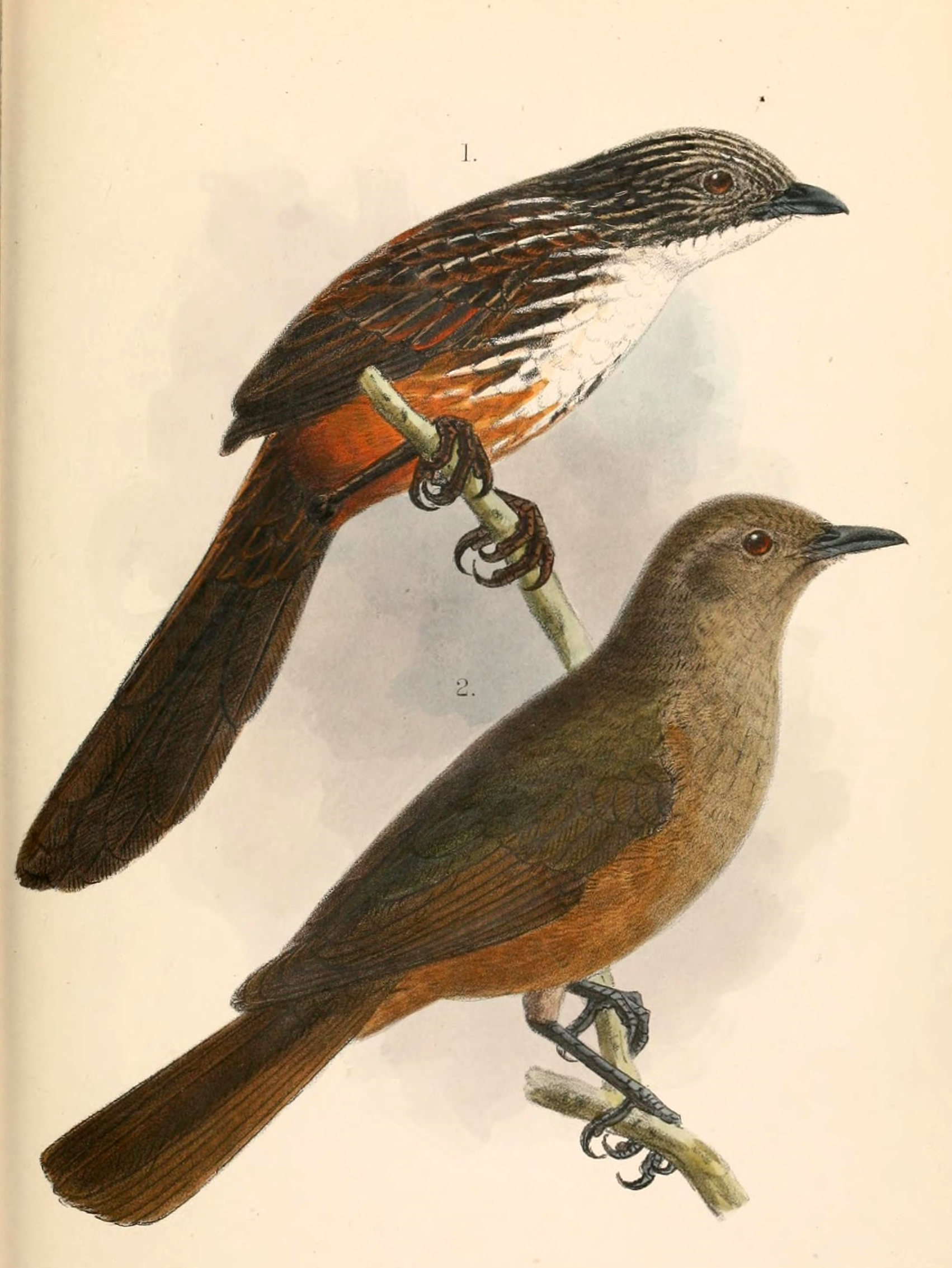 « Amytornis woodwardi » = Amytornis woodwardi (White-throated grasswren) - male « Colluricincla woodwardi » = Colluricincla woodwardi (Sandstone shrikethrush) - male